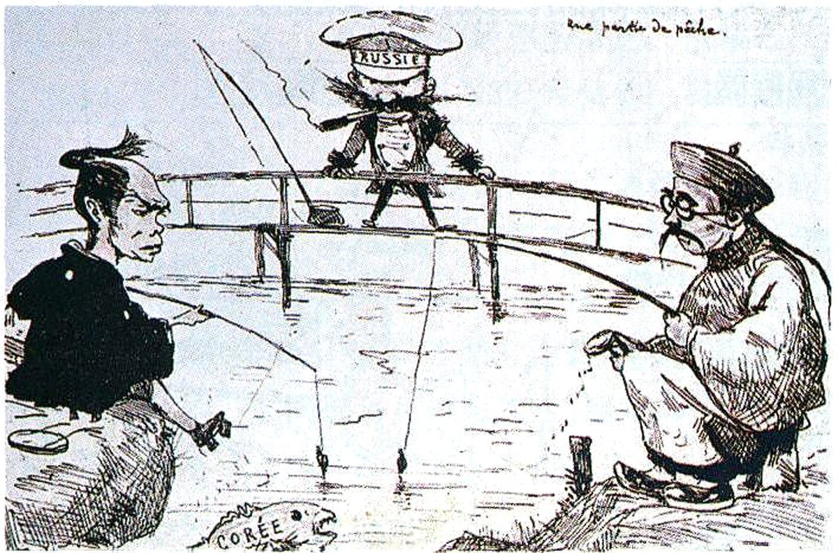 Caricature about the dispute between China, Japan and Russia over Korea, published in the first edition of Tôbaé , 1887. It is titled "Fishing Play." This is a satirical painting of the situation before the Sino-Japanese War, the Russo-Japanese War.